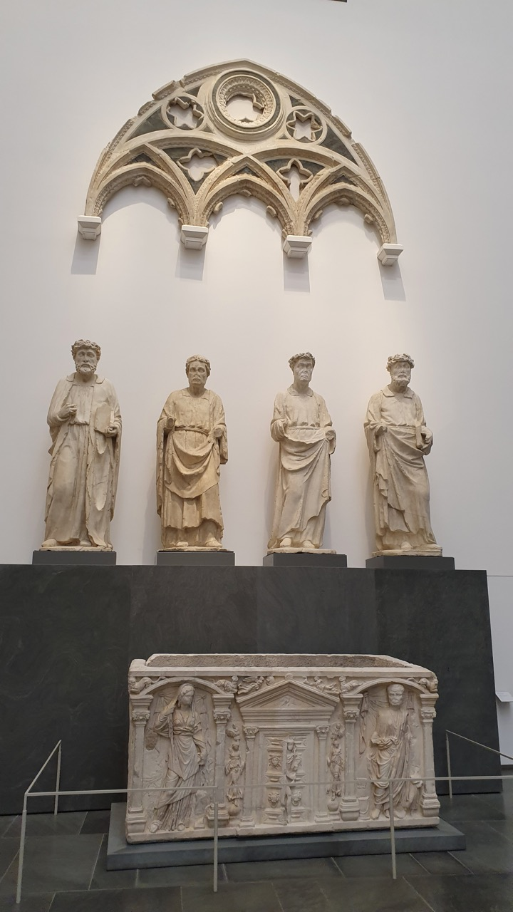 Doctors of the church by Niccolò di Pietro Lamberti (two to the left) and by Piero di Giovanni Tedesco (two to the lright) at Museo dell'Opera del Duomo (Florence)